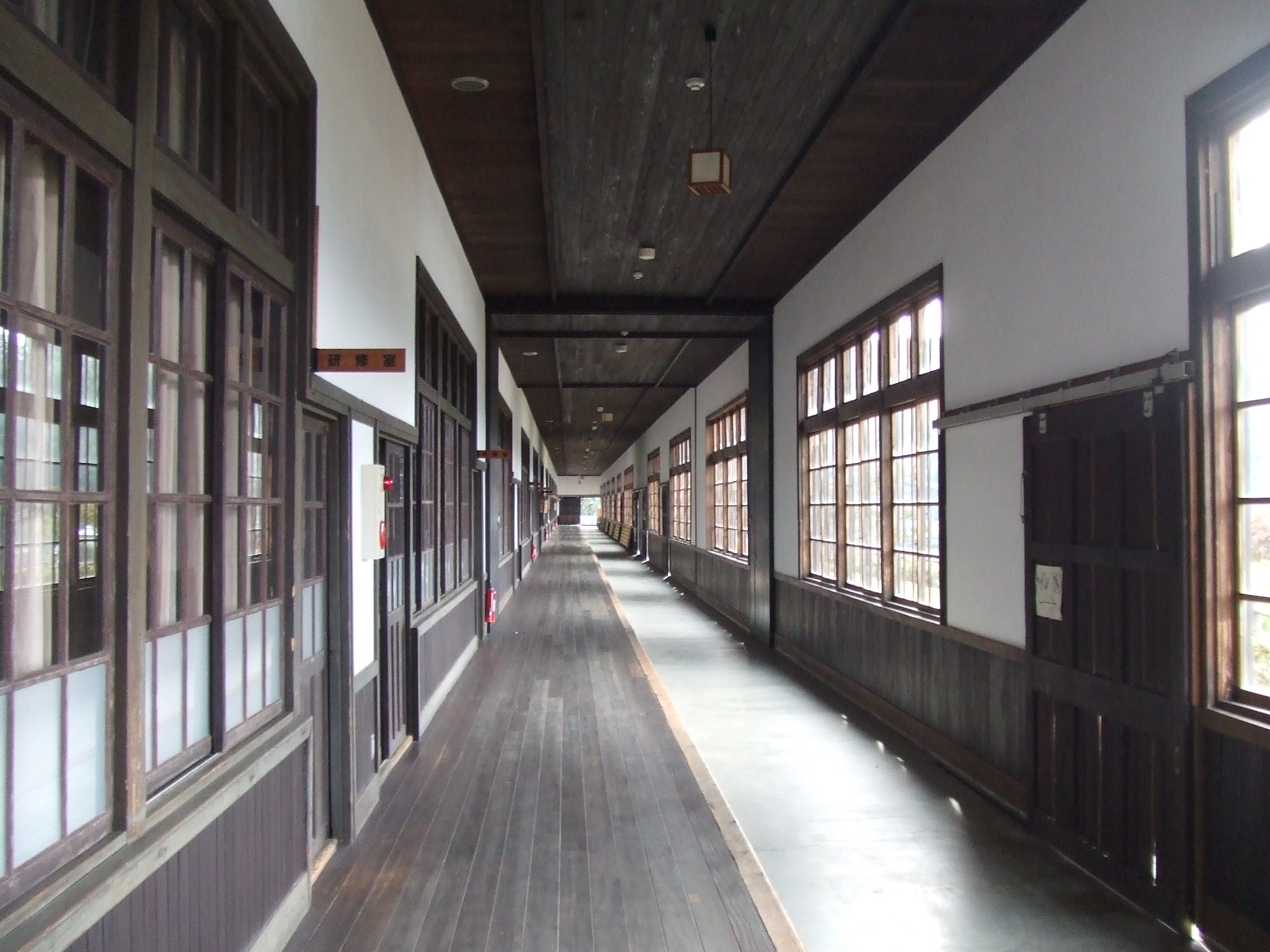 Rice plant museum in Seiyo city.